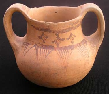 Devollian/Devollite pottery from the tumulus of Barç in southern Albania from 1000–800 BC. This description is according to a picture published on the same vessel on the 58th page of the following book: Neritan Ceka: The Illyrians to the Albanians. Tirana: Migjeni. 2013. ISBN 9789928407467